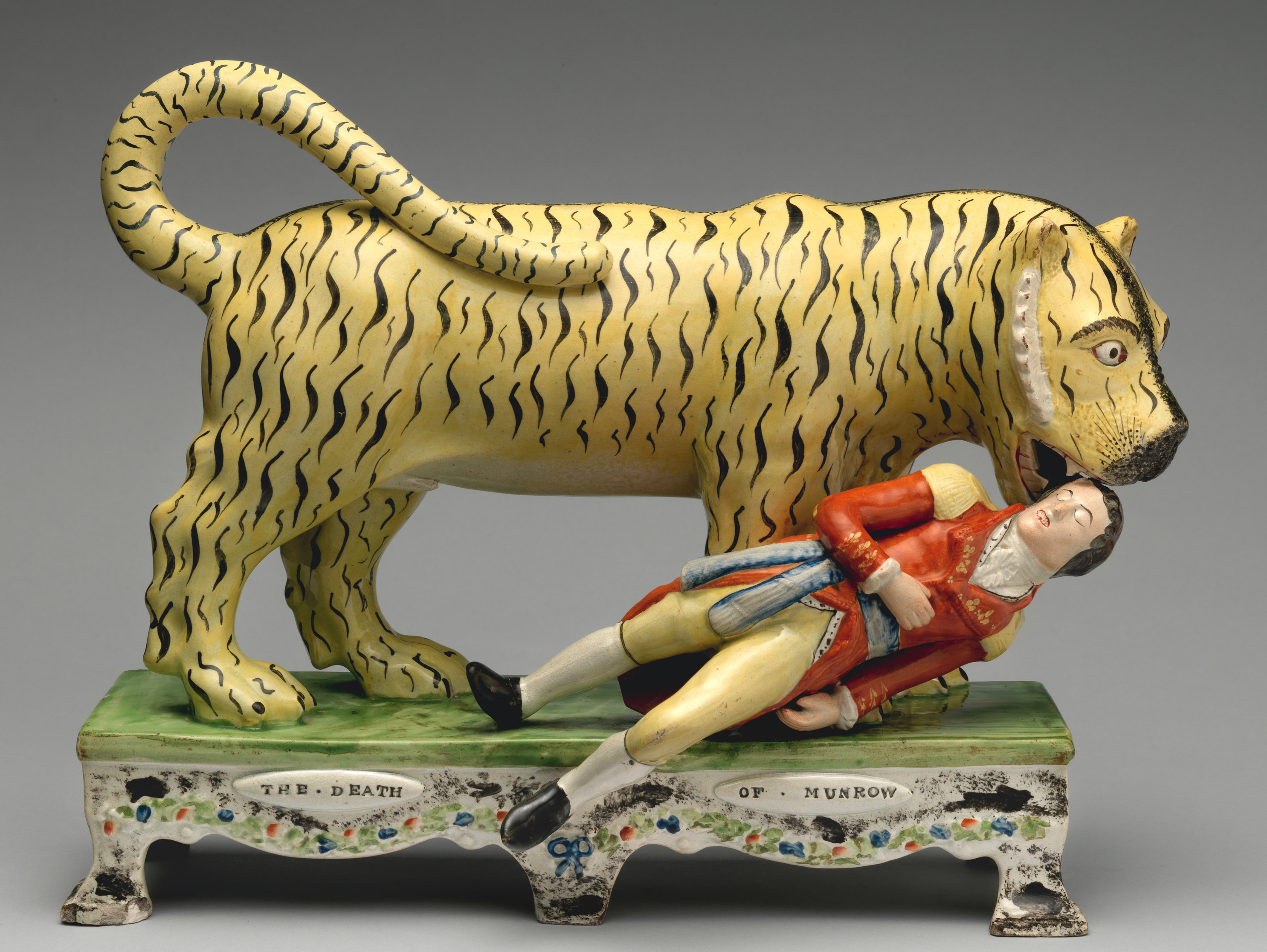 British, Staffordshire; Figure group; Ceramics-Pottery